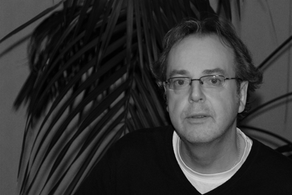 Gerd Sonntag